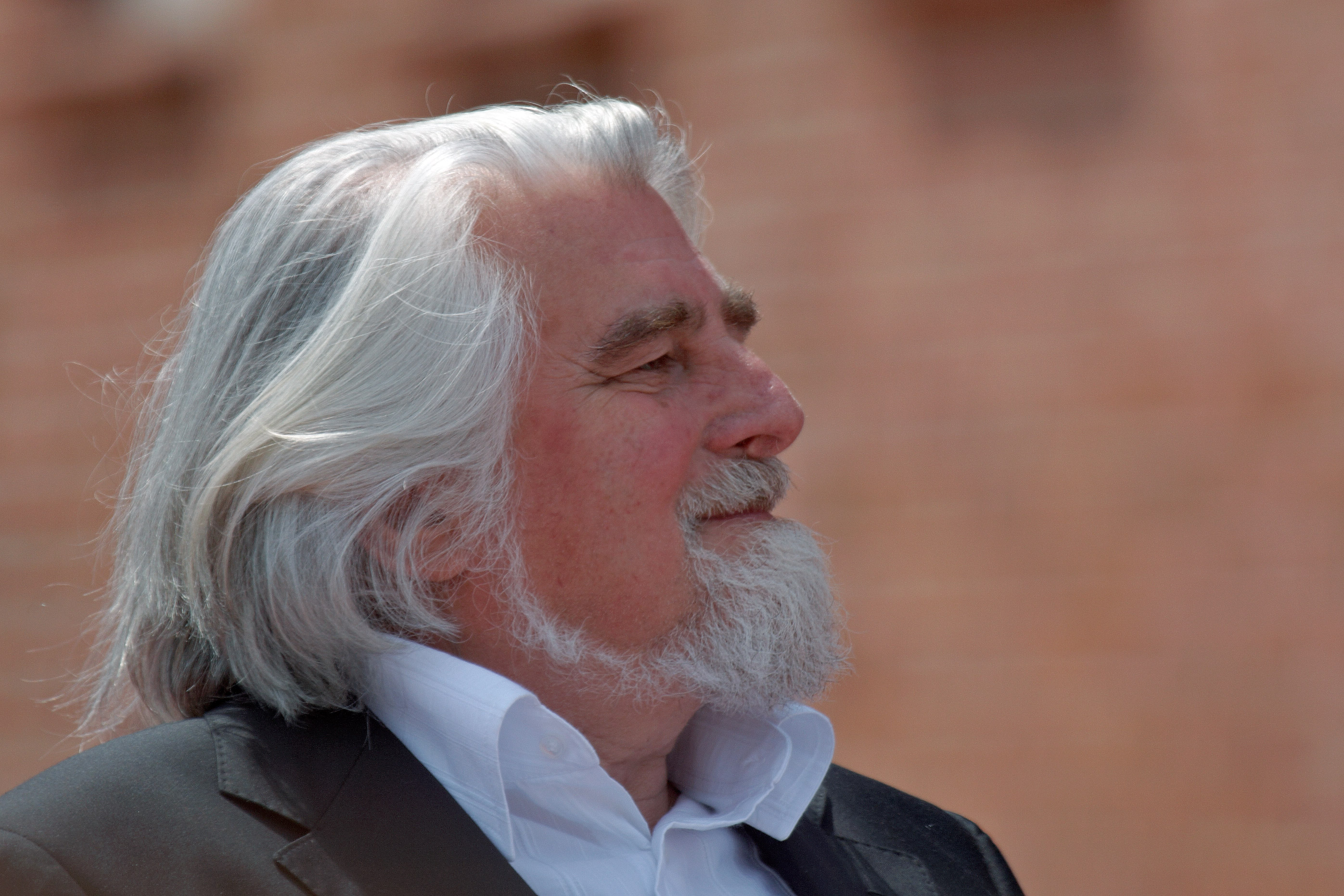 Kiejstut Bereźnicki - Festiwal Gwiazd in Gdańsk, 2008